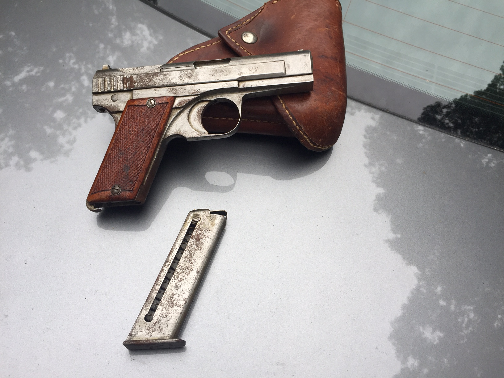 41 of 50, Hamada Type 2 pistol with issued modified Type 94 holster